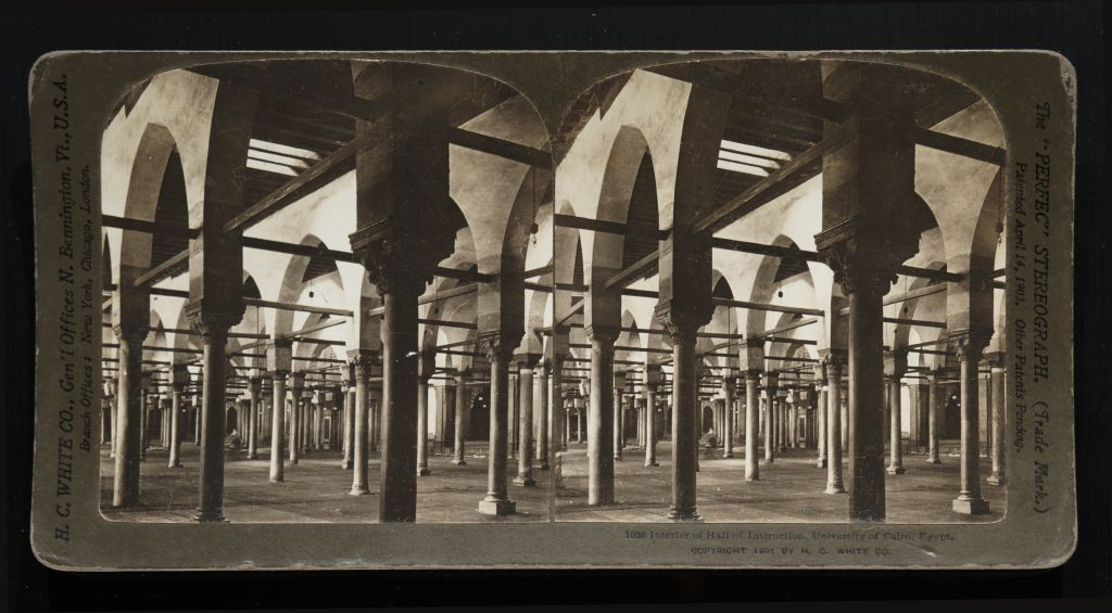 Interior view of the hall of instruction in the University of Cairo, Egypt